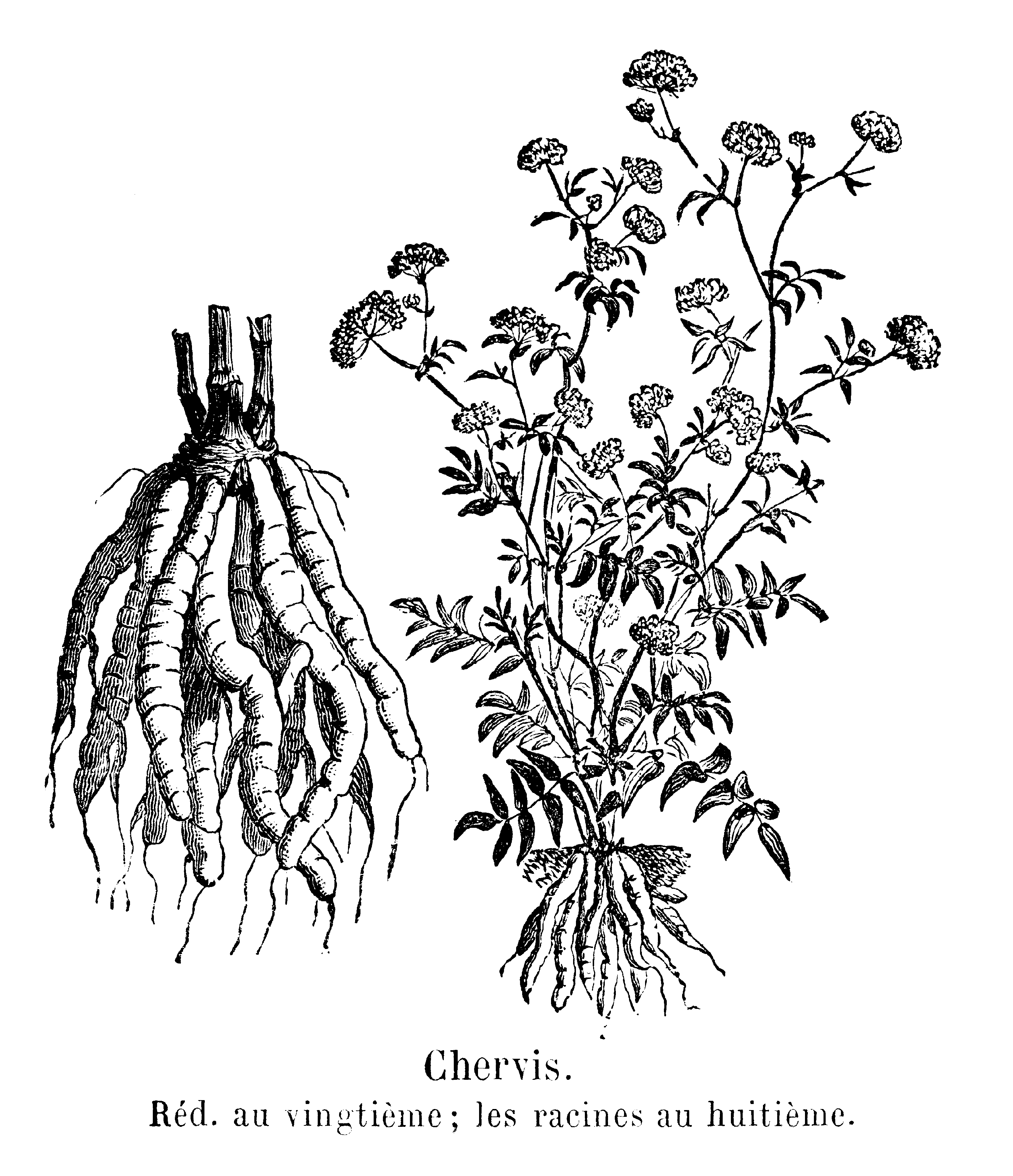 skirret